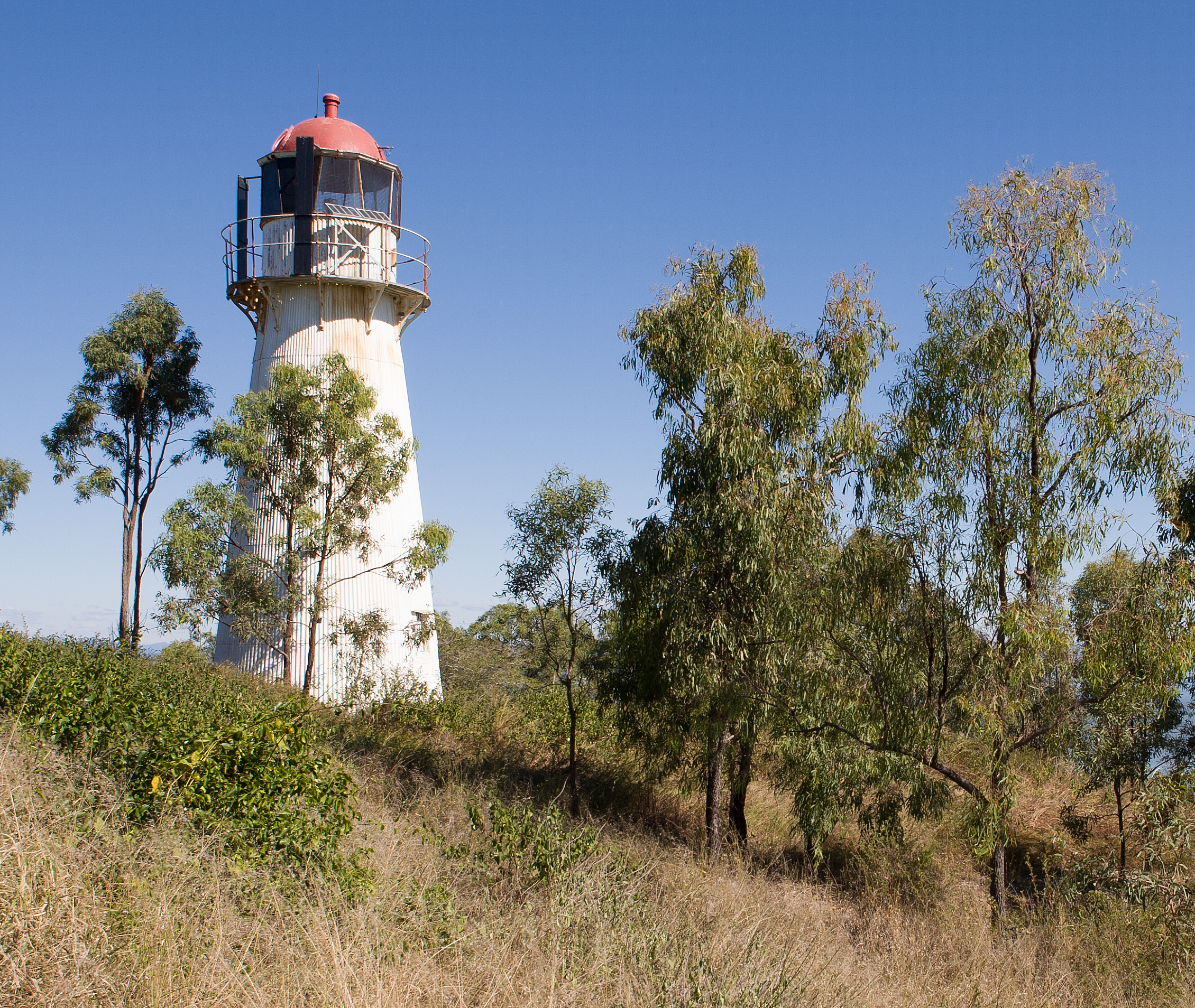 The second Sea Hill lighthouse, Curtis Island, Queensland, Australia, built in 1895, photographed from the seaward side, 31 May 2011. Sea Hill Light